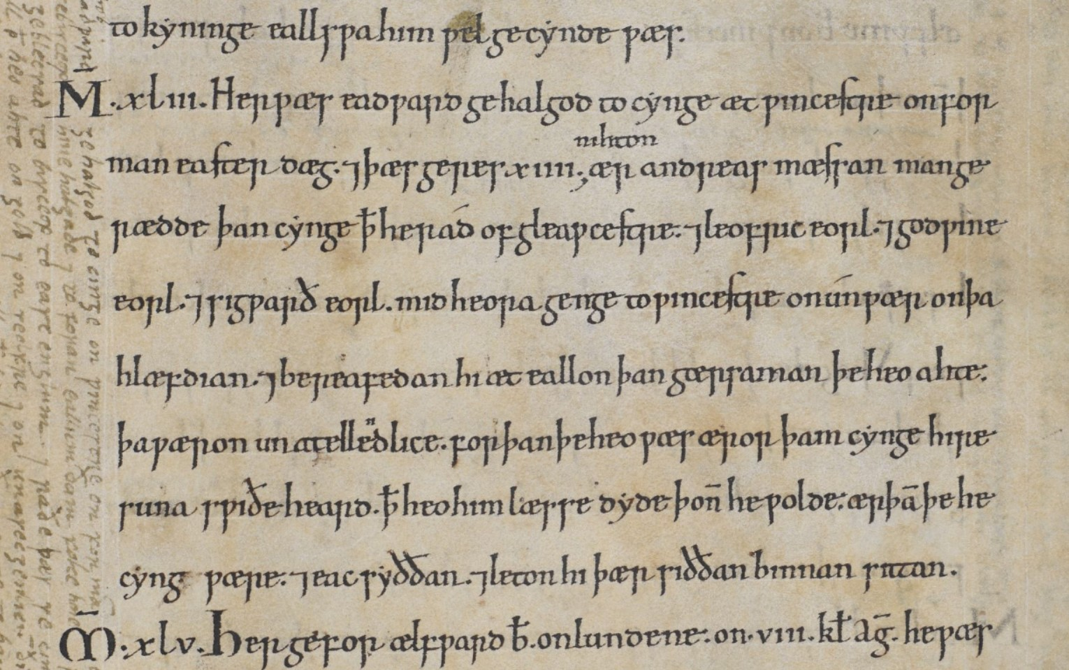 The entry for the year 1043 in MS D of the Anglo-Saxon Chronicle (the "Worcester Chronicle")